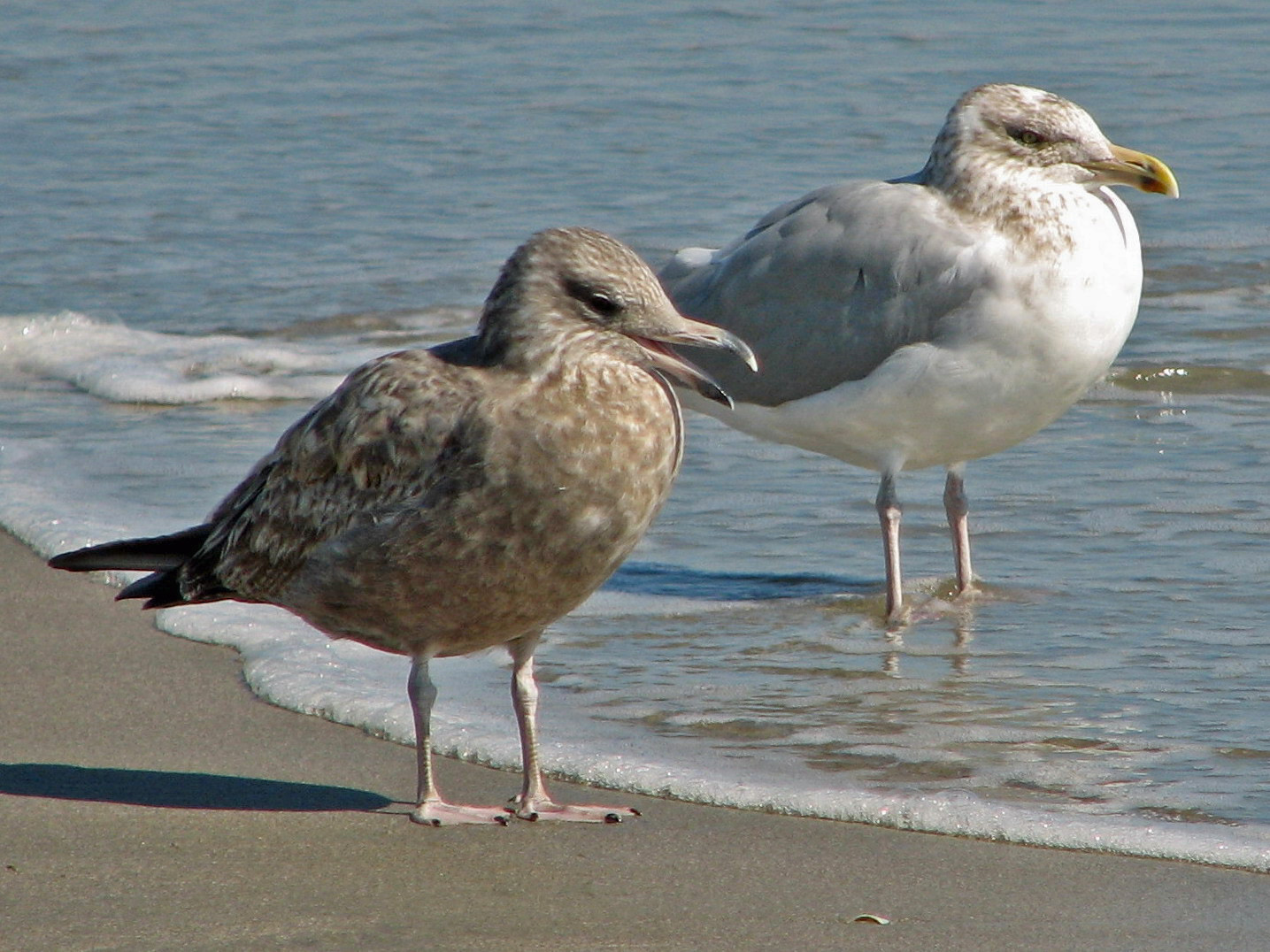 American Herring Gull (Larus smithsonianus) - Adult and Juvenile